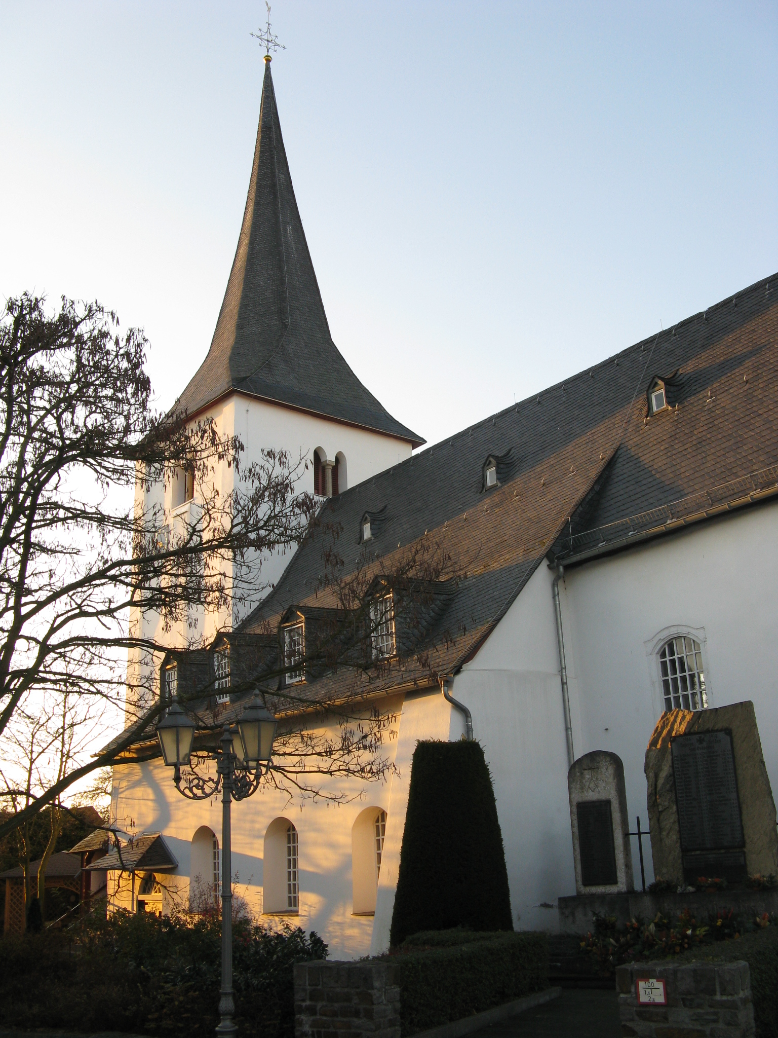 Bornich, Protestant Church, Rhine Valley/Germany